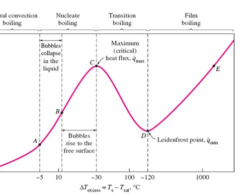 منحنی جوشش اب در فشار اتمسفر